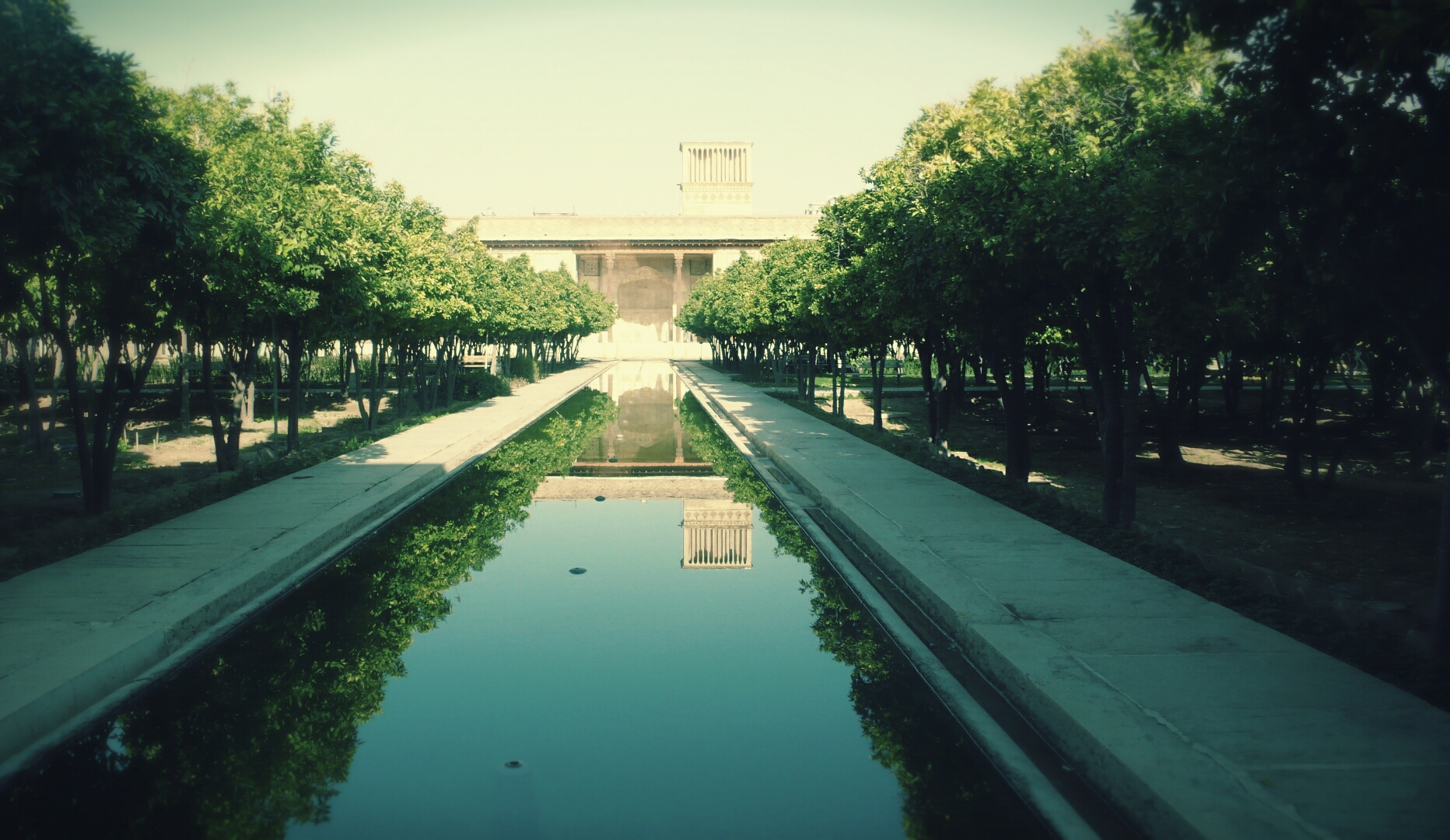 Arg of karim khan